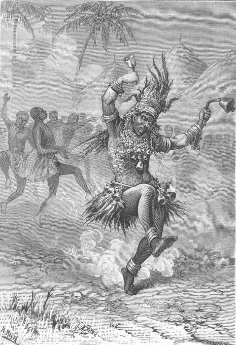 An ilustration from "Dick Sand, A Captain at Fifteen" by Jules Verne painted by Henri Meyer.